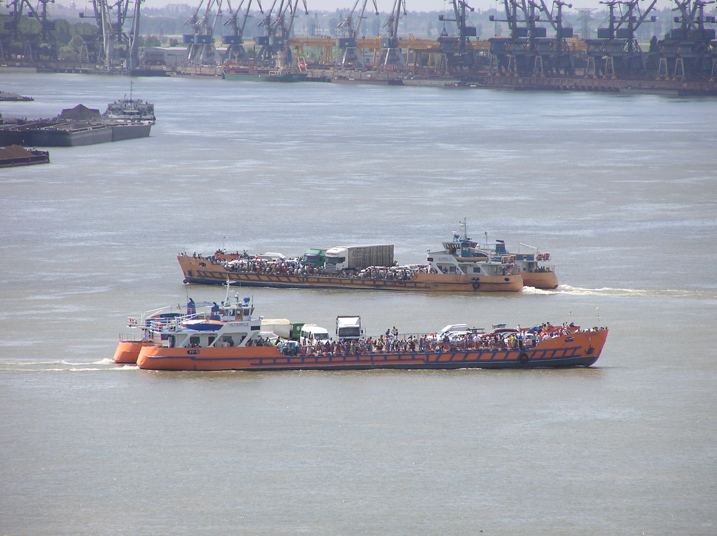 The two ferries over the Danube in Galati/Romania meet each other.